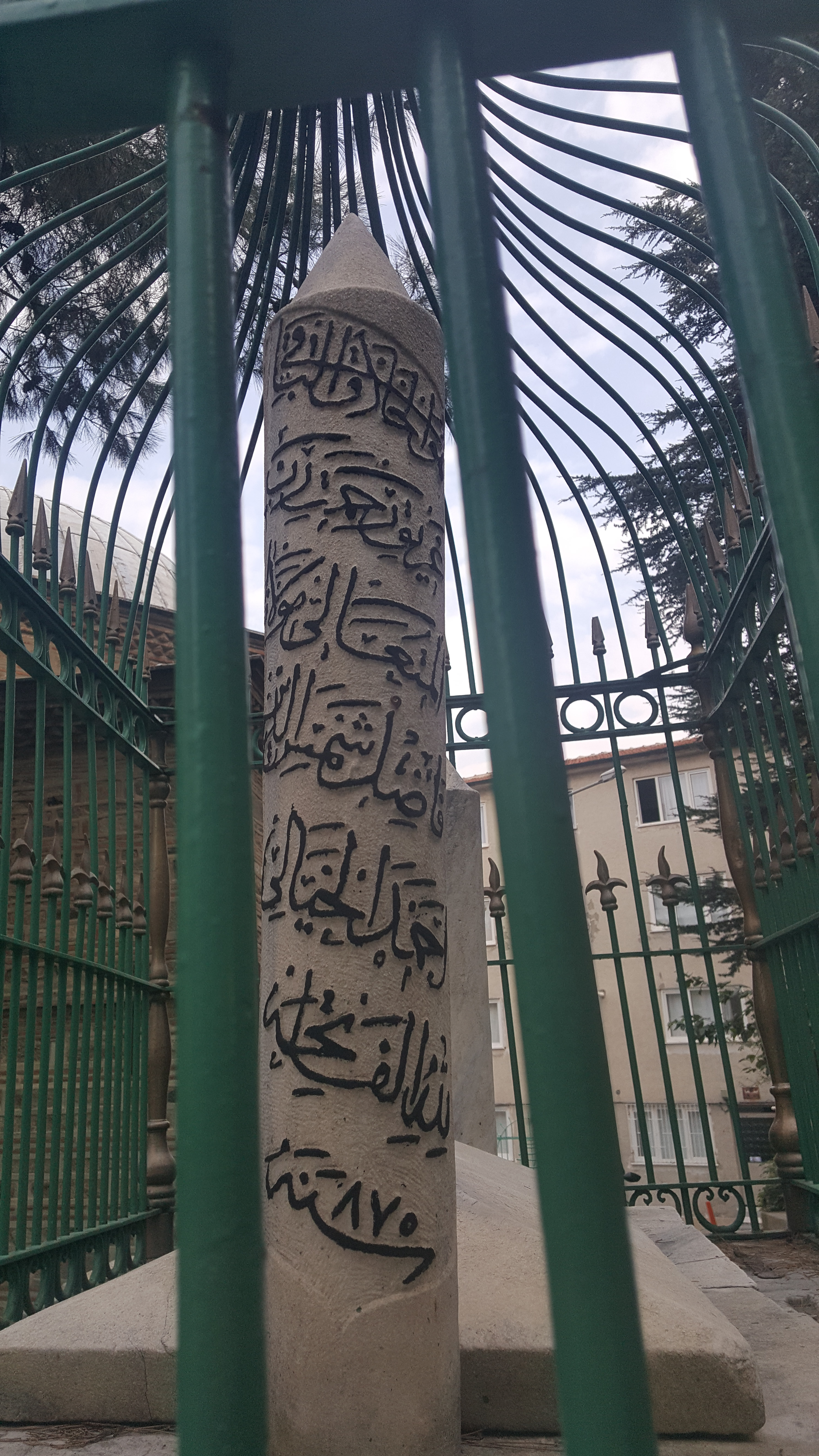 Burial of 15th century poet Molla Hayali in Bursa, Turkey